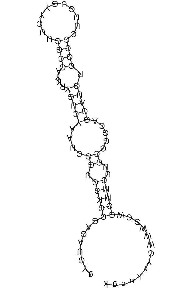 RNA secondary structure of TB10Cs3H2 generated by the WAR server( It is the consensus structure from 8 Trypansomatid species -Leishmania major, Leishmania infantum, Leishmania braziliensis, Trypanosoma brucei, Trypanosoma brucei gambiense, Trypanosoma cruzi, Trypanosoma congolense, Trypansoma vivax --with some manual editing and redrawing of the structure with RNAplot from the Vienna RNA package